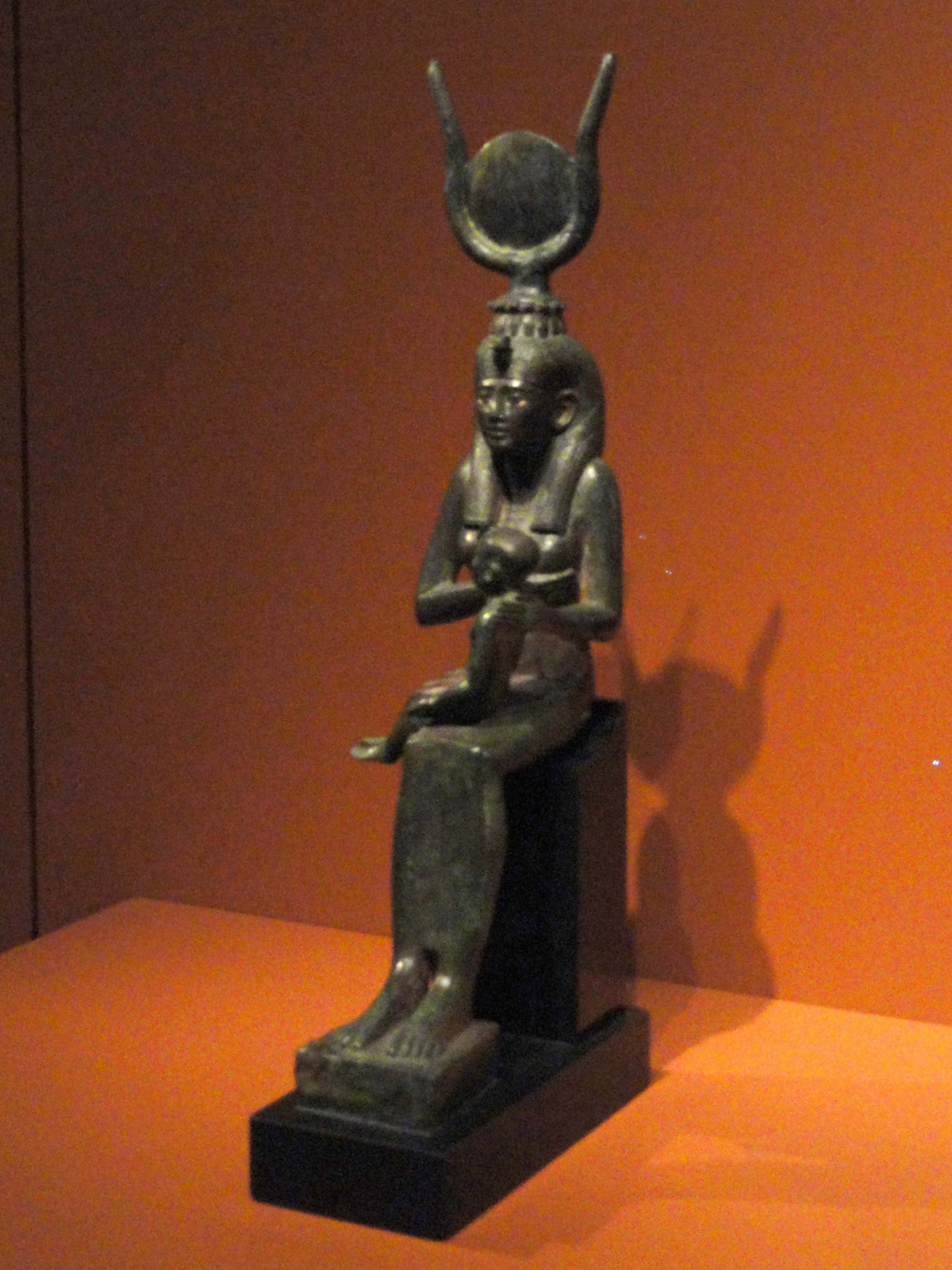 Exhibit in the Nelson-Atkins Museum of Art, Kansas City, Missouri, USA. ; I took this photograph and release it into the public domain.